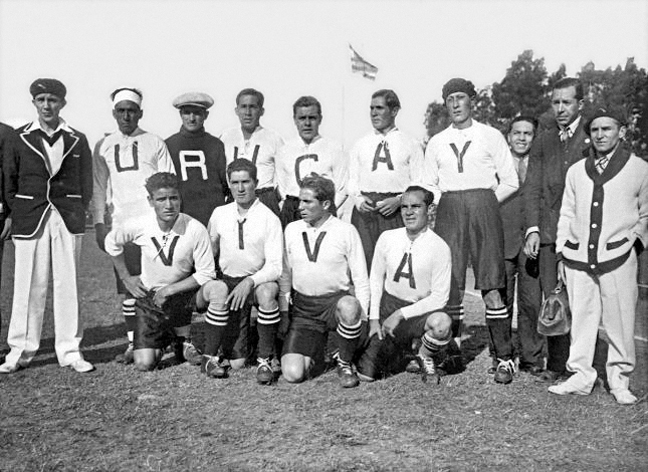 Bolivia national football team line-up on July 17, 1930, right before the match against Yugoslavia.Back row, left to right: Juan Jorge Argote, Jesús Bermúdez, Mario Alborta, José Bustamante, René Fernández, Casiano José Chavarría;Front row, left to right: Diógenes Lara, Jorge Luis Valderrama, Segundo Durandal, Gumercindo Gómez.